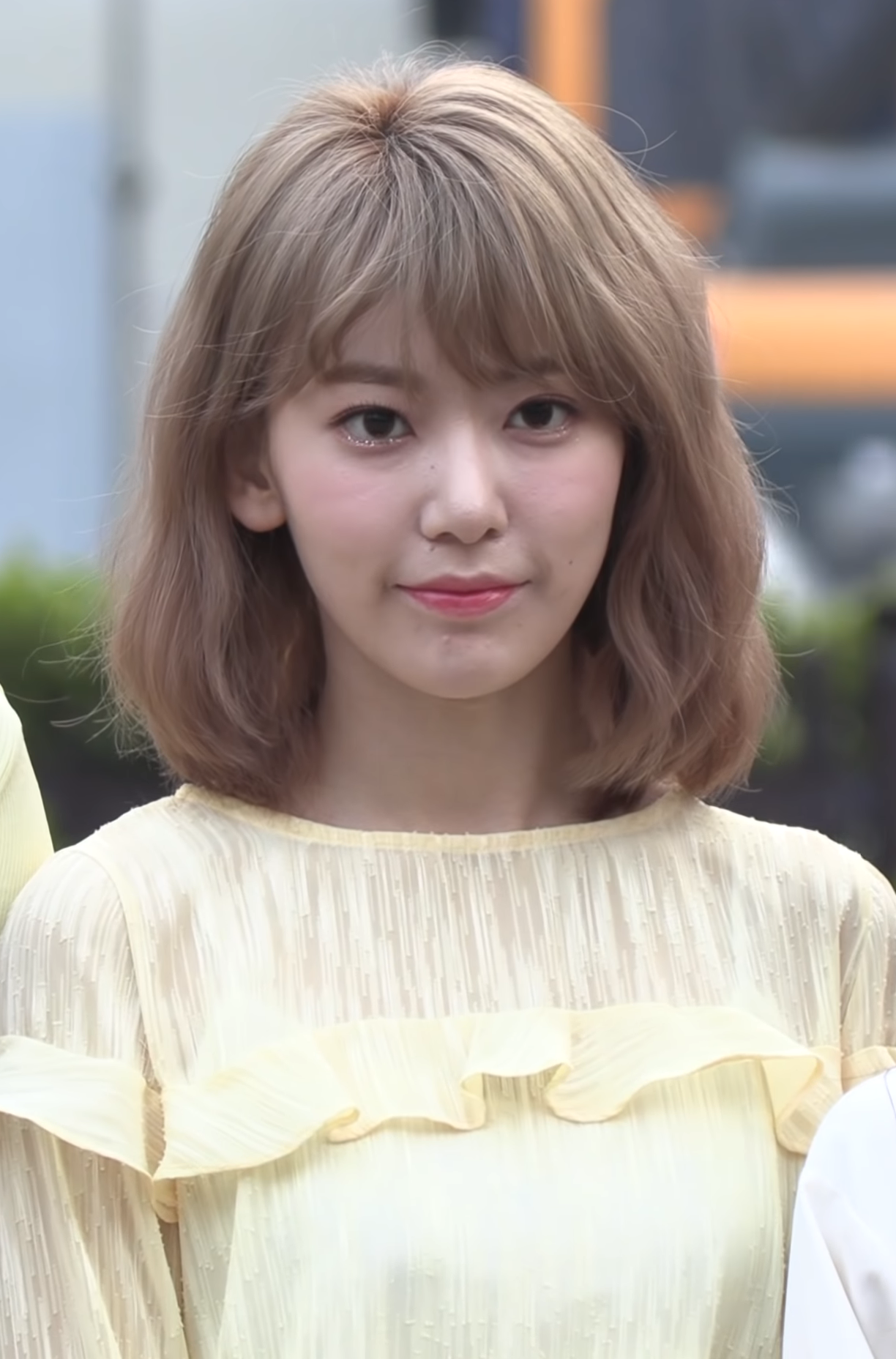 Sakura Miyawaki at Music Bank on April 12, 2019